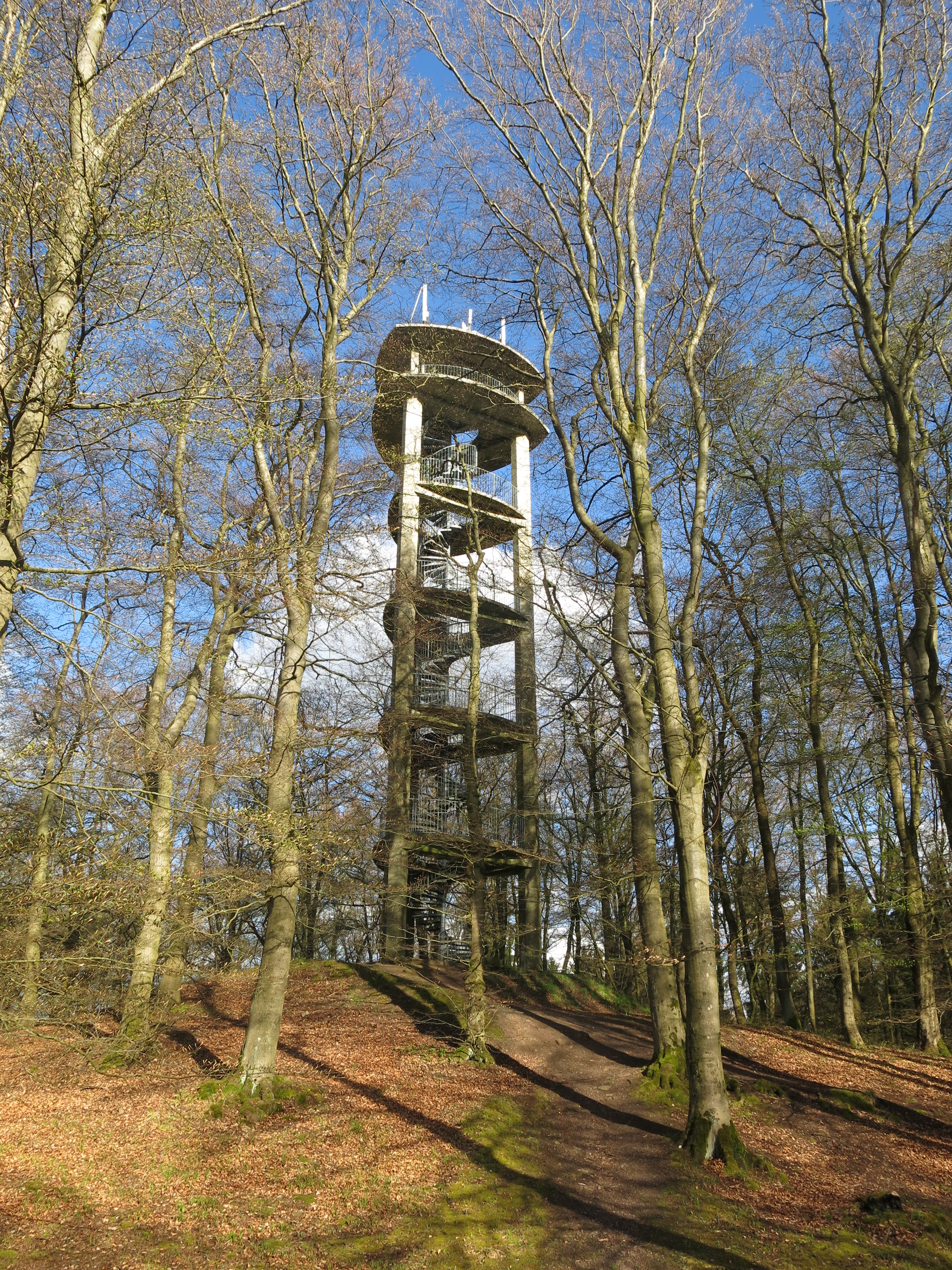 The Heussner-Tower on Mengshäuser Kuppe, seen from west.